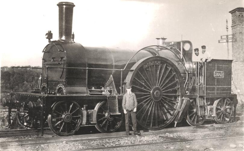 Bristol and Exeter Railway 8'10" 4-2-4T Nº40 running as Great Western Railway 2002 in 1876, standing outside Exeter St Davids engine shed.